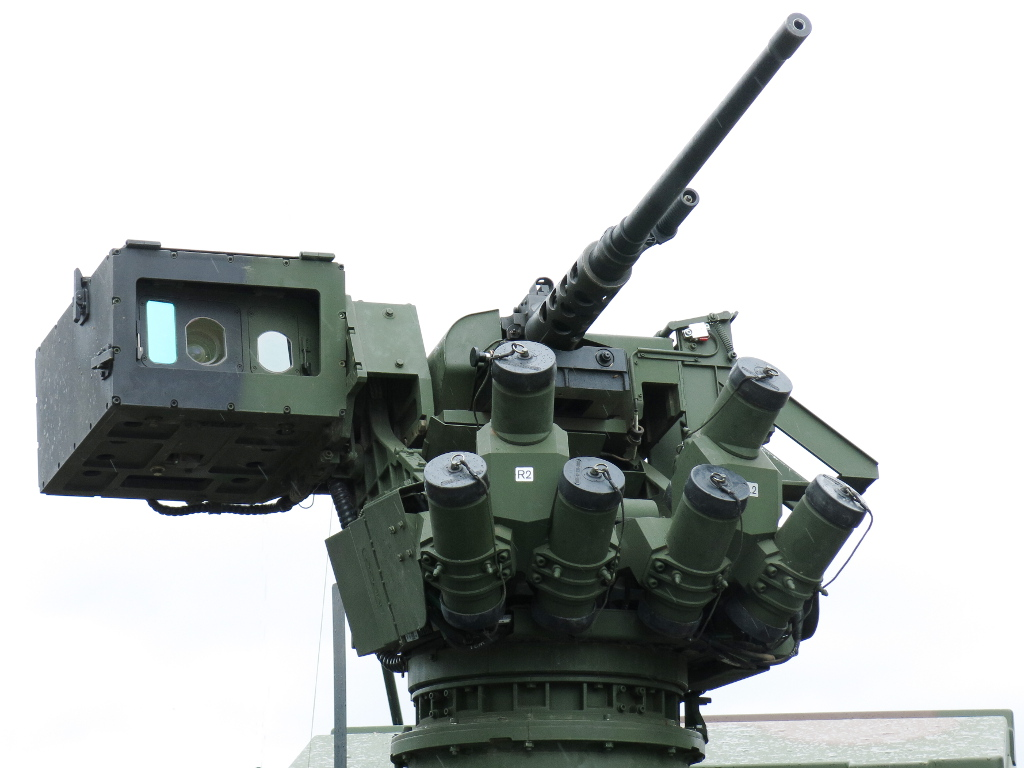 KMW FLW 200 remote weapon station with Browning M2 and LAZ 400 mounted on GTK-Boxer, Open day Panzergrenadierbataillon 411, Viereck 2017